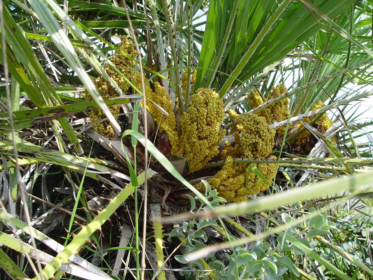 Species Chamaerops humilis Familia Arecaceae